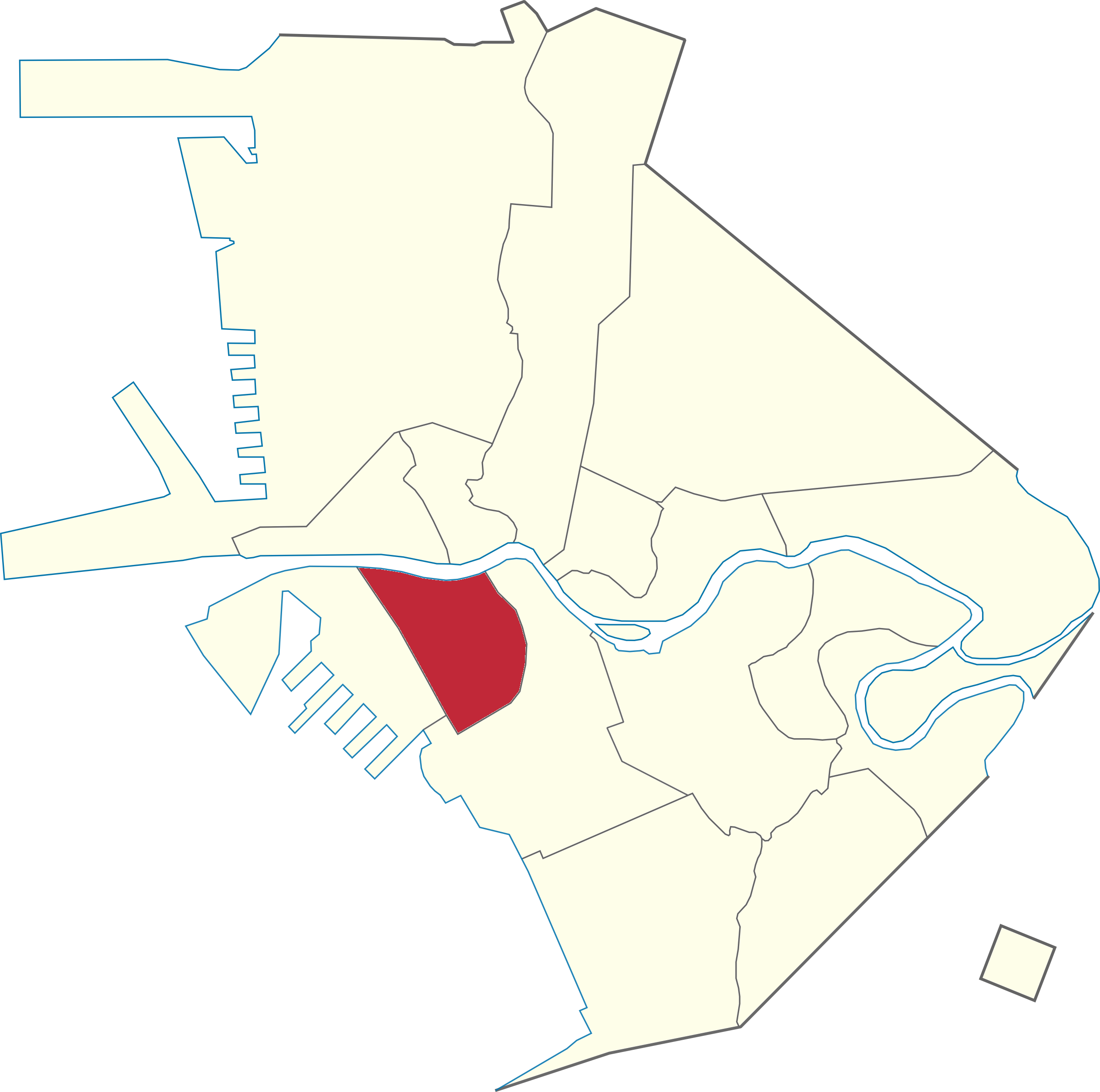 Location of Intramuros in Manila